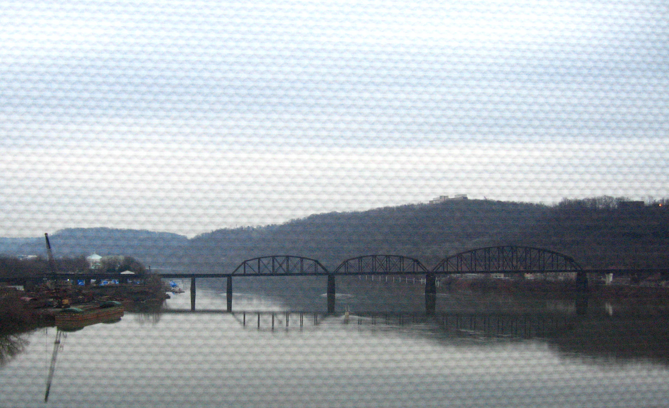 Over the river and through the woods, to Sally's house we go..... heading up to Sally's to watch the Steelers game.